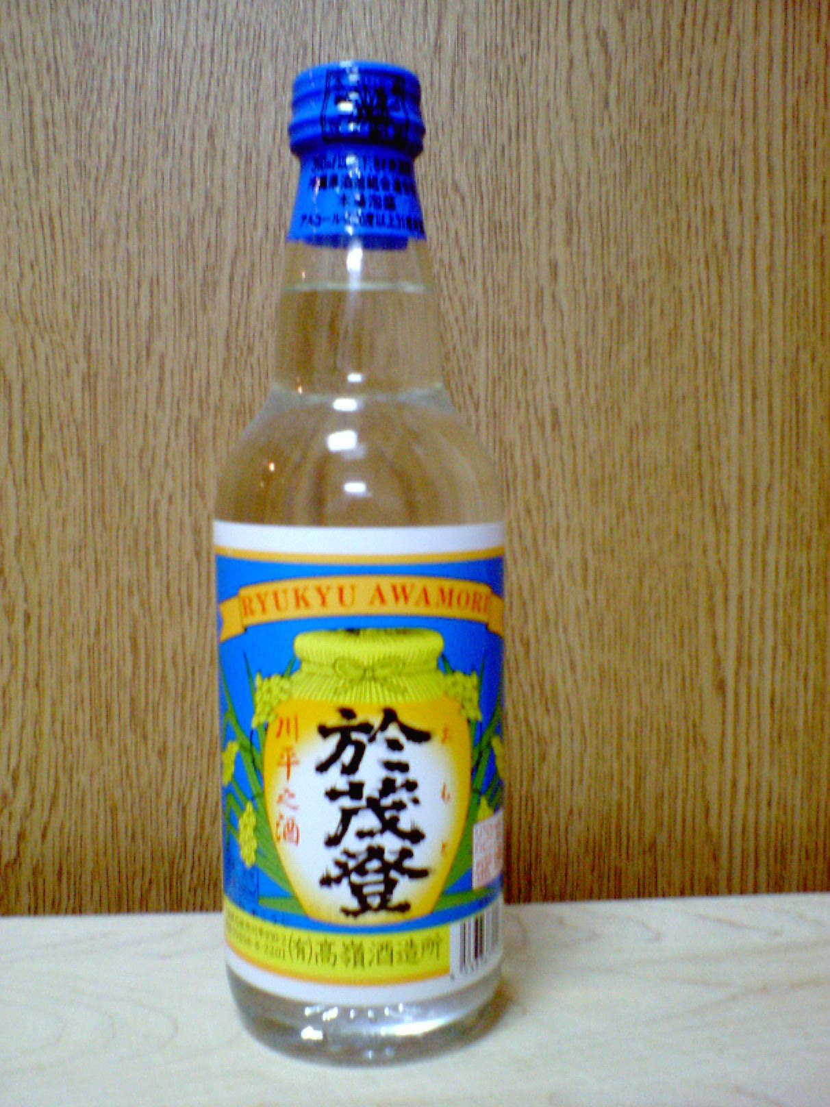 at my apartment, in Kachidoki, Tokyo. Mild awamori.